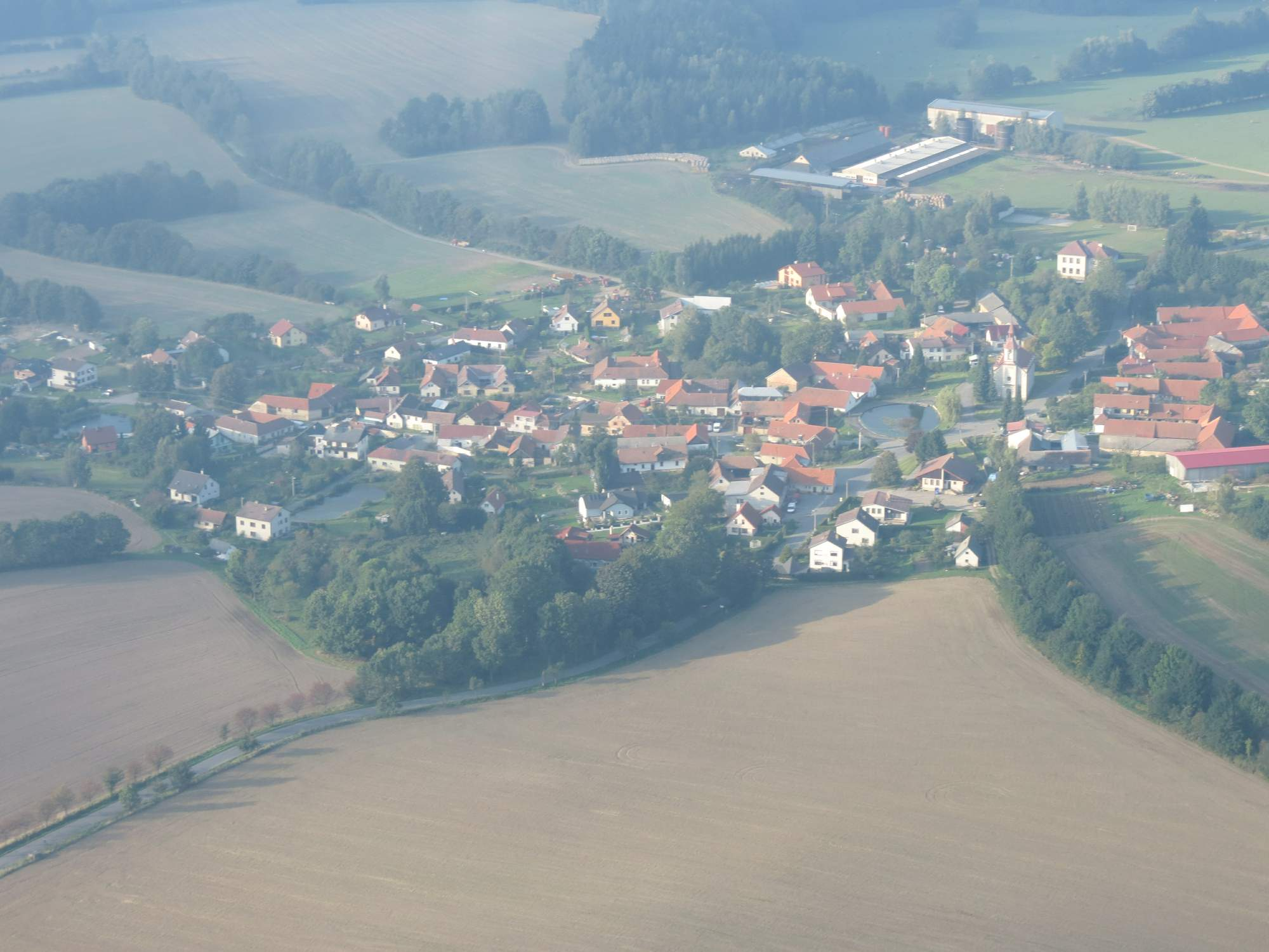 Opatov from air